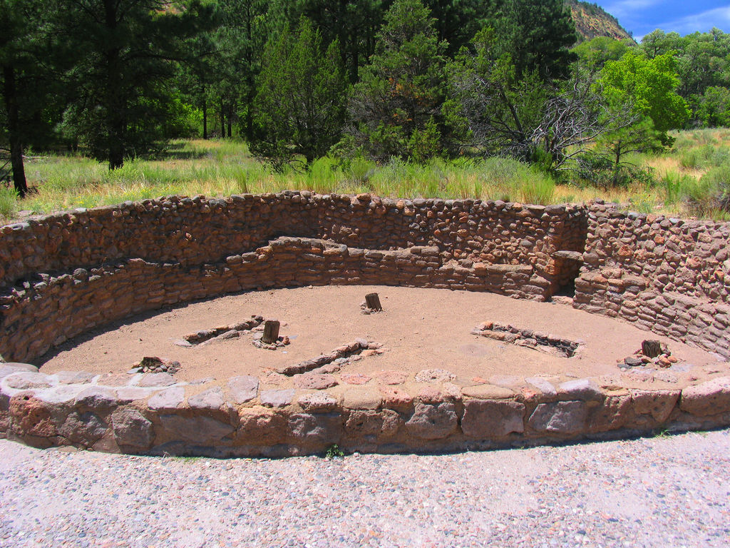 Kiva, Bandelier, New Mexico, USA